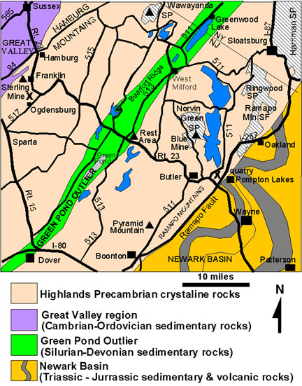 USGS's map of the Ramapo Fault. Summary from page: "The drive westward along Route 23 north of I-80 passes through residential neighborhoods sprawling across the rolling lowlands of the Passaic River Valley. Just west of Pompton Lakes the land rises steeply along the eastern front of the Ramapo Mountains. This mountain front reveals a hidden structure in the region: the Ramapo Fault. This fault is the boundary between the western edge of the Newark Basin and the northern New Jersey Highlands (Figure 36)."